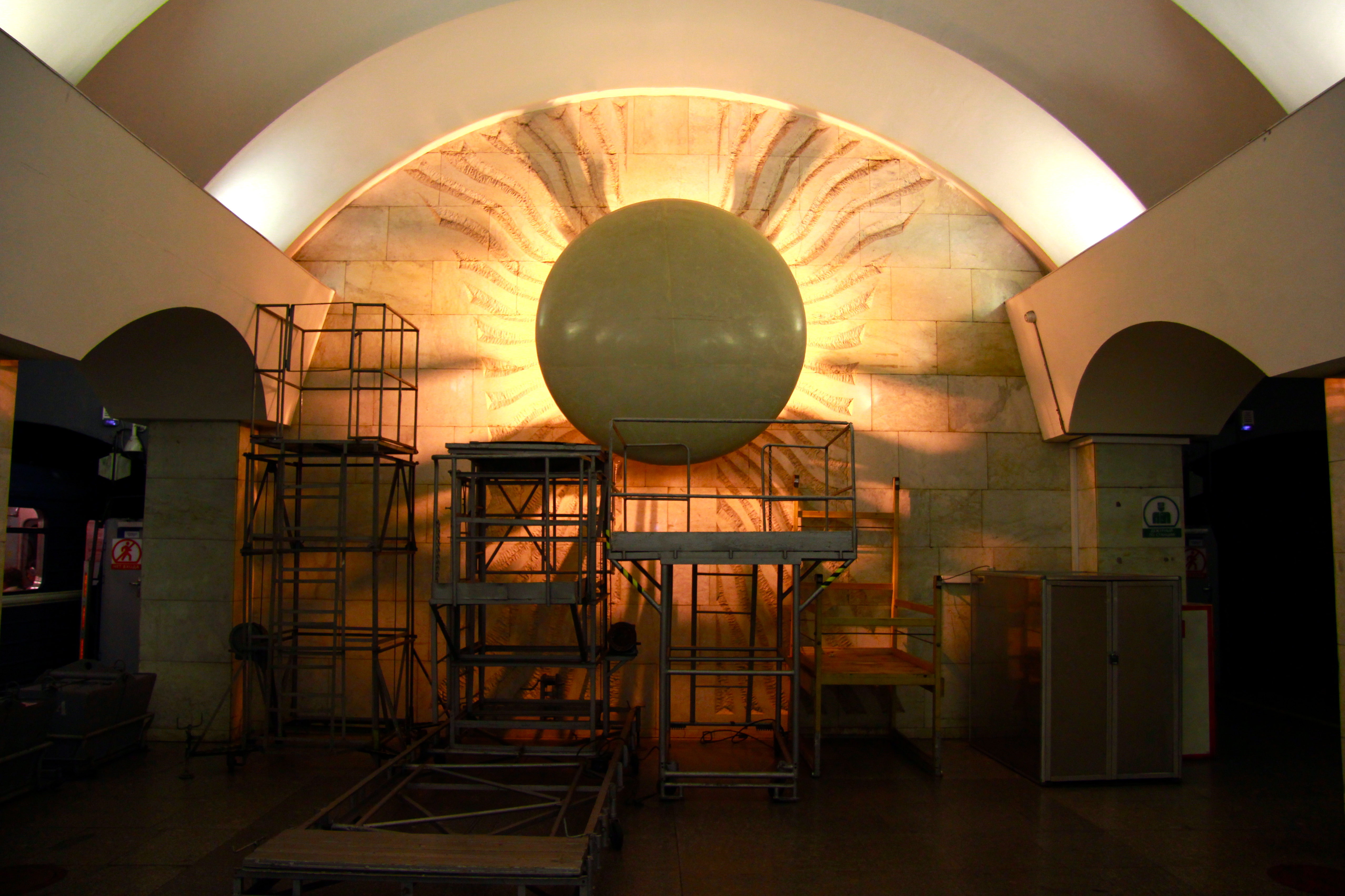 The Sun artwork light at the back wall of the platform. Lesnaya metro station. Saint Petersburg Metro, Russia. Kirovsko-Vyborgskaya Line